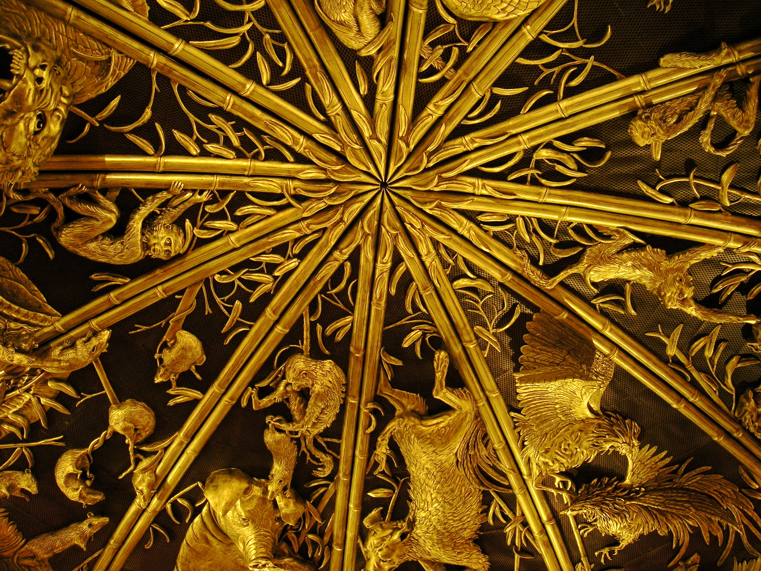 A carved ceiling in the Wynn Macau, representing the signs of the Zodiak